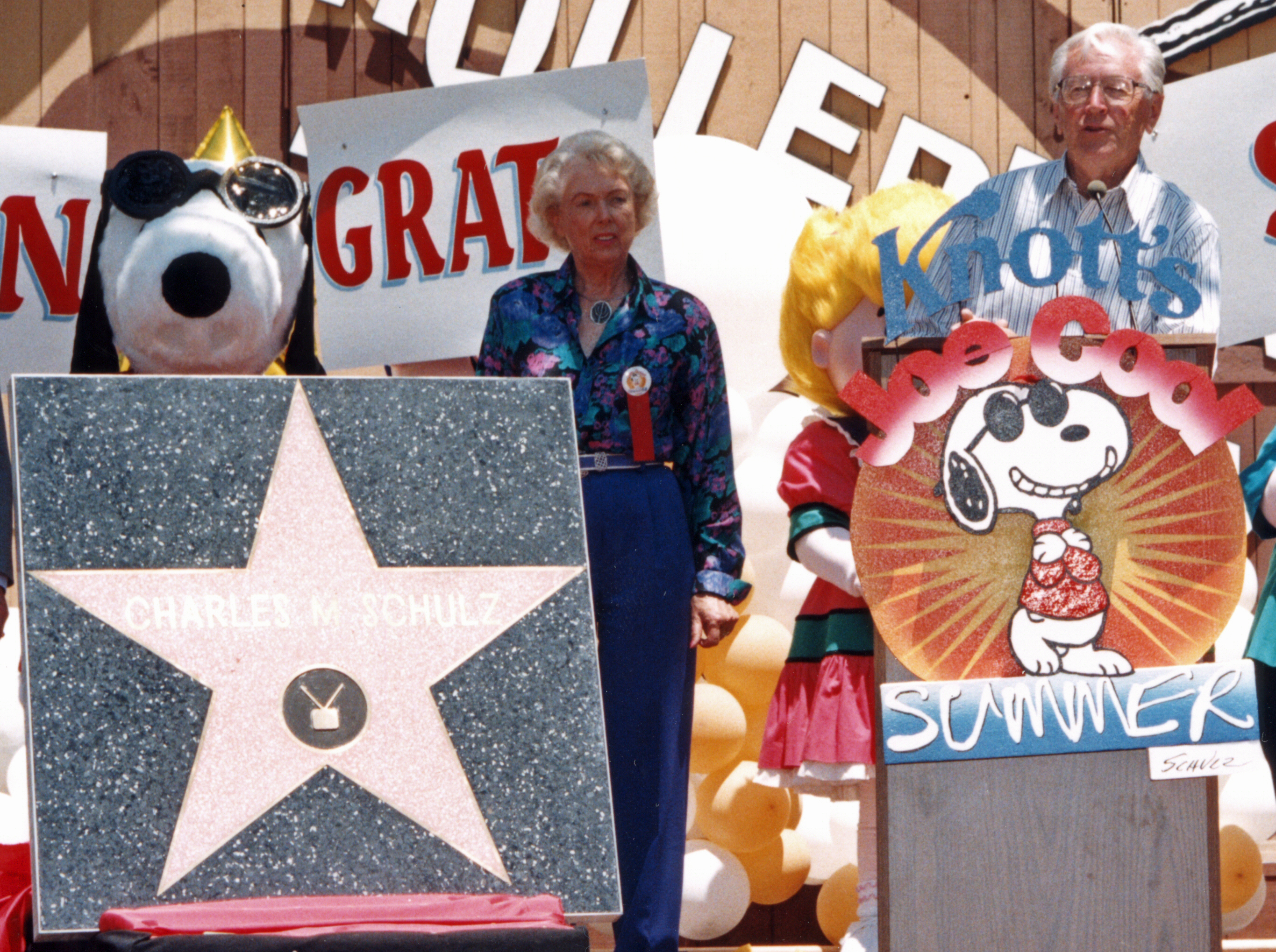 Charles M. Schulz receives his star on the Hollywood Walk of Fame in a ceremony at Knott's Berry Farm in Buena Park. Marion Knott stands between Schulz and Snoopy.